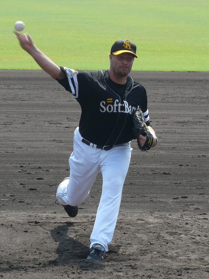 Jason Standridge, pitcher of the Fukuoka SoftBank Hawks, at Hanshin Naruohama Baseball Ground.